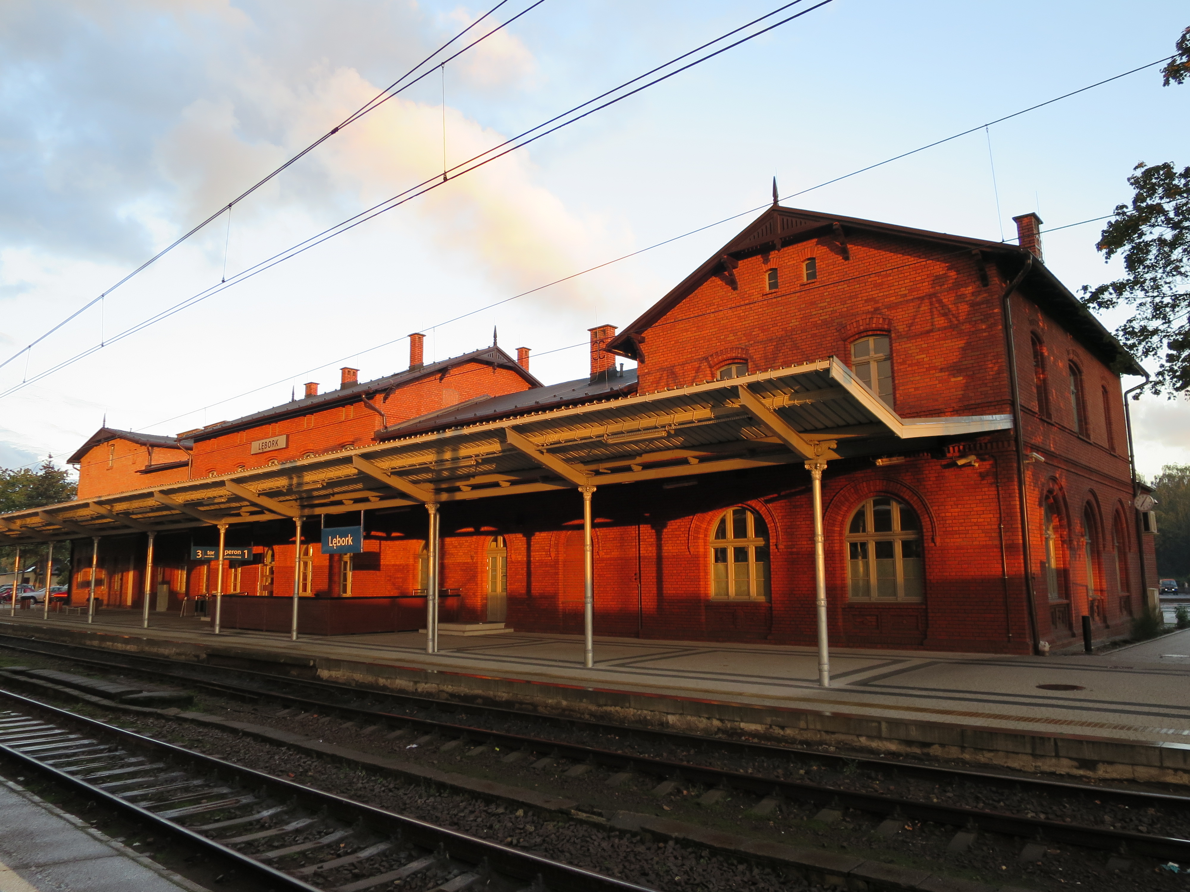 Lębork This photo was taken during Railway Wikiexpedition 2015 set up by Wikimedia Polska Association in cooperation with Fundacja Grupy PKP.You can see all photographs in category Wikiekspedycja kolejowa 2015.